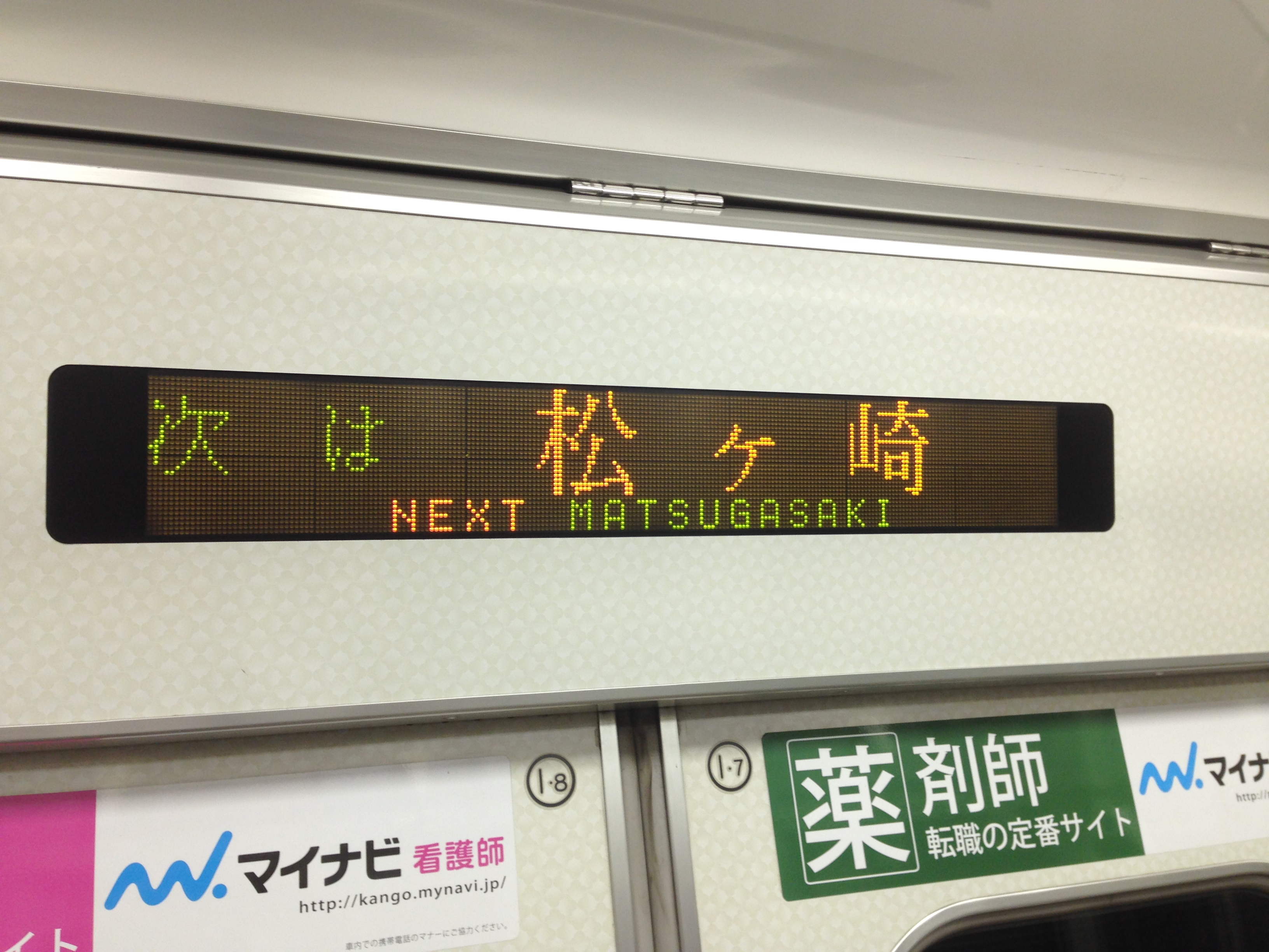 Passenger information board on Kyoto subway 10 series